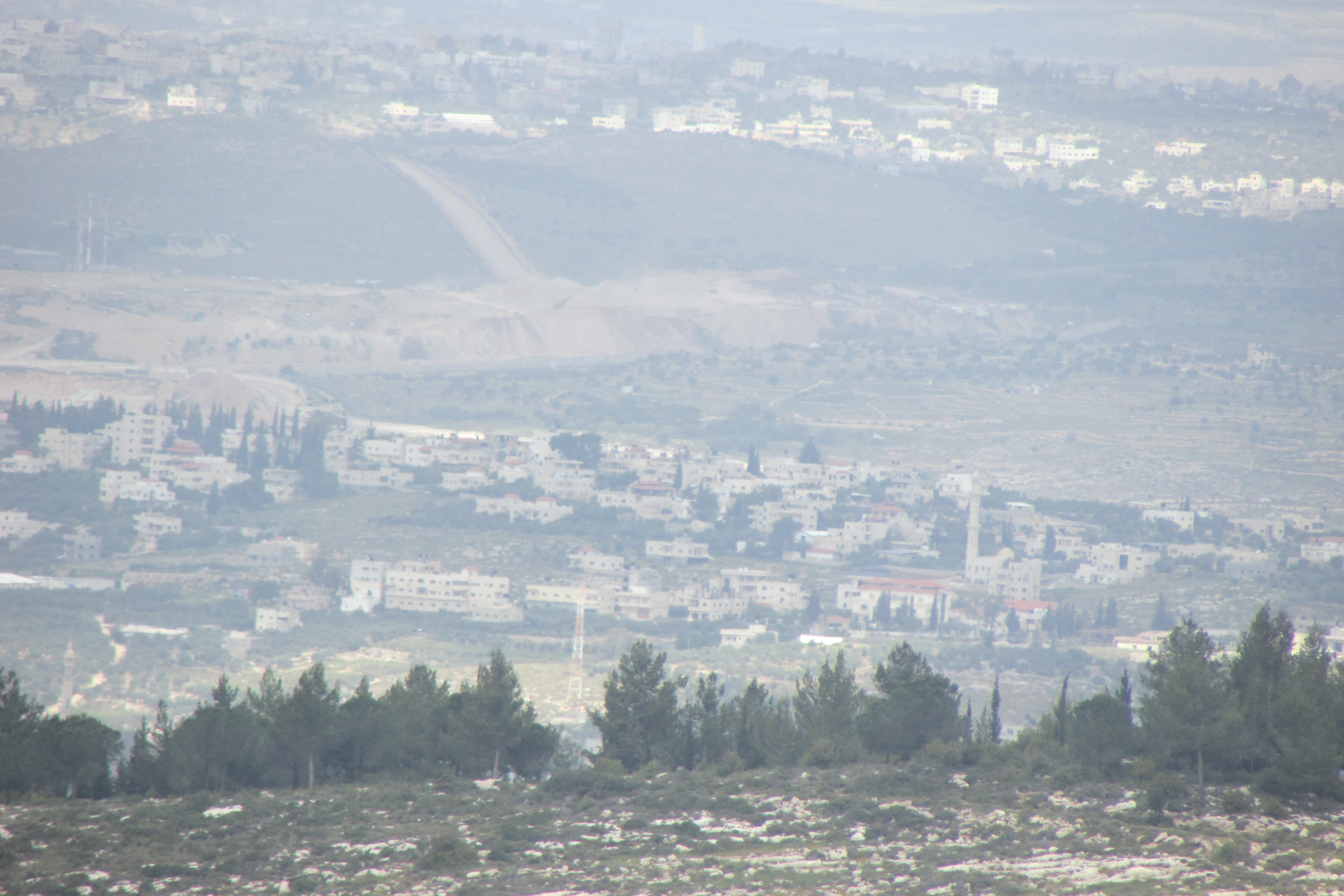 Saffa from the south. The farther village is Deir Kadis